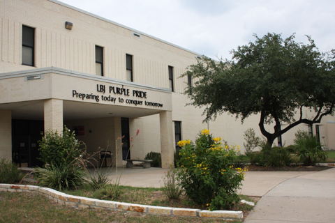 LBJ & LASA High School. Lyndon Baines Johnson High School in northeast Austin, Texas is a high school built in 1974 that later came to house one of Austin's two magnet high schools, the Science Academy. In early 2002, the Liberal Arts Academy, Austin's other magnet high school, was moved from Johnston High School to LBJ, forming what is now known as LASA (Liberal Arts and Science Academy).